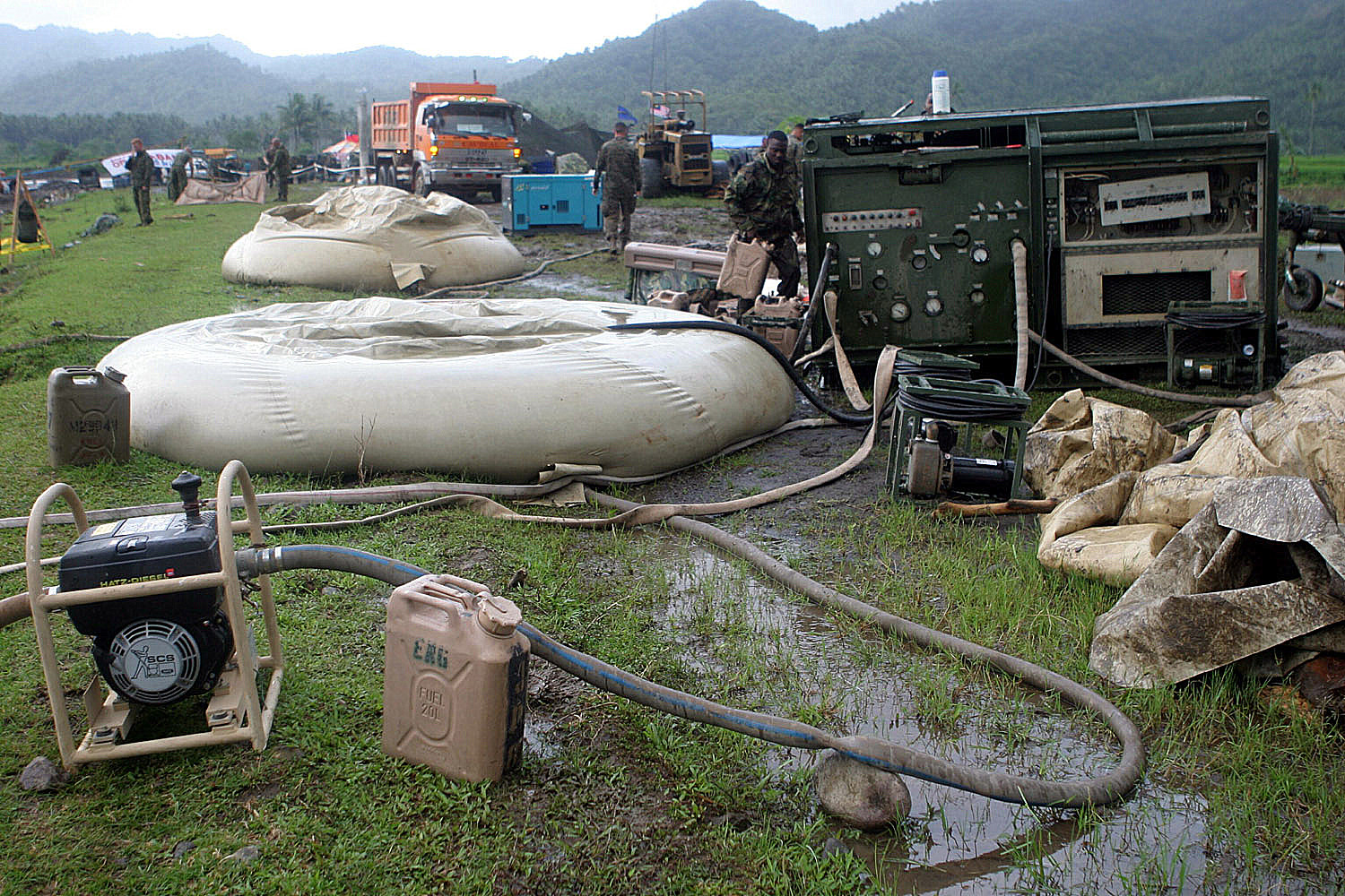 Leyte, Philippines (Feb. 20, 2006) – U.S. Marines assigned to the 31st Marine Expeditionary Unit (MEU) Service Support Group 31, prepares a chlorine solution for water. The solution will be added to the water flowing through the reverse-osmosis purification unit, which is being used by the 31st Marine Expeditionary Unit (MEU) Service Support Group 31 following a massive landslide that buried a village in the southern part of the island of Leyte. Sailors and Marines from the Forward Deployed Amphibious Ready Group (ARG), USS Essex (LHD 2) and USS Harpers Ferry (LSD 49), arrived off the coast of Leyte Feb. 19 to provide humanitarian assistance and disaster relief to victims of the landslide. U.S. Marine Corps photo by Lance Cpl. Willard J. Lathrop (RELEASED)